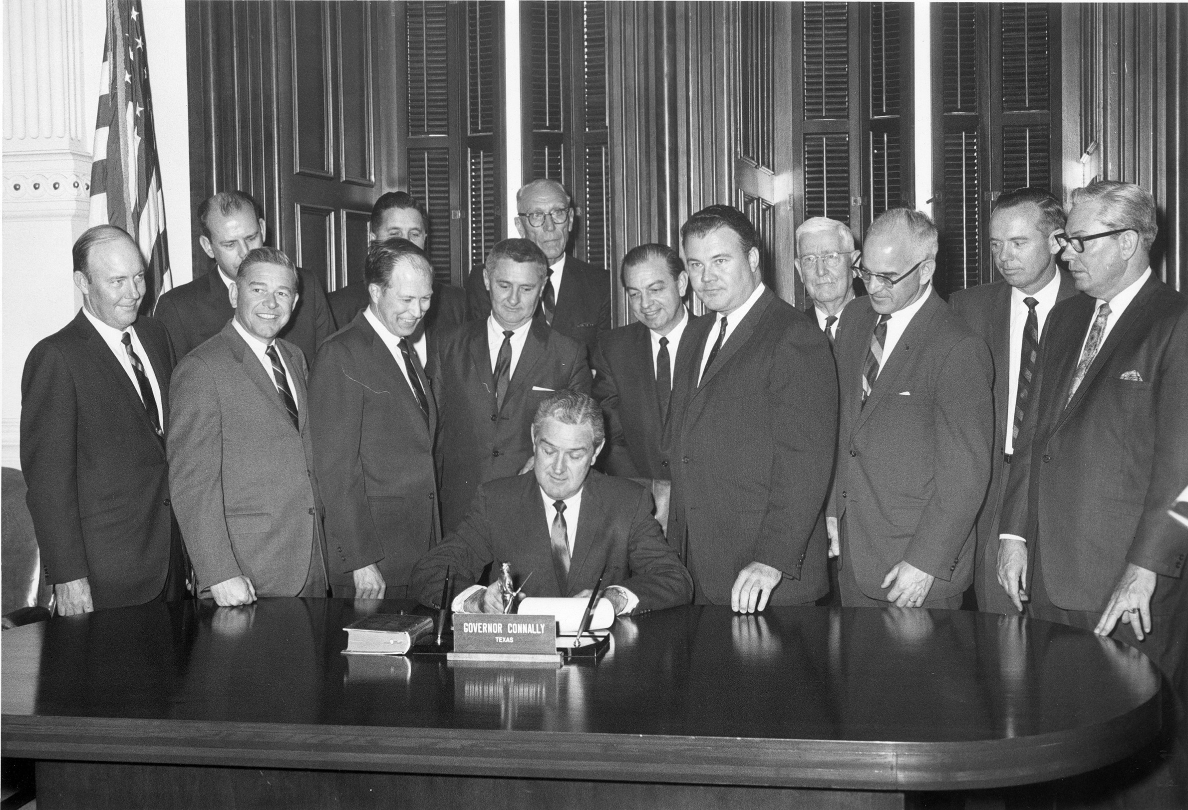 Gov. John Connally signing bill that separated Arlington State College from the Texas A&M system, group standing behind him includes Arlington Mayor Tom Vandergriff and ASC President Woolf.